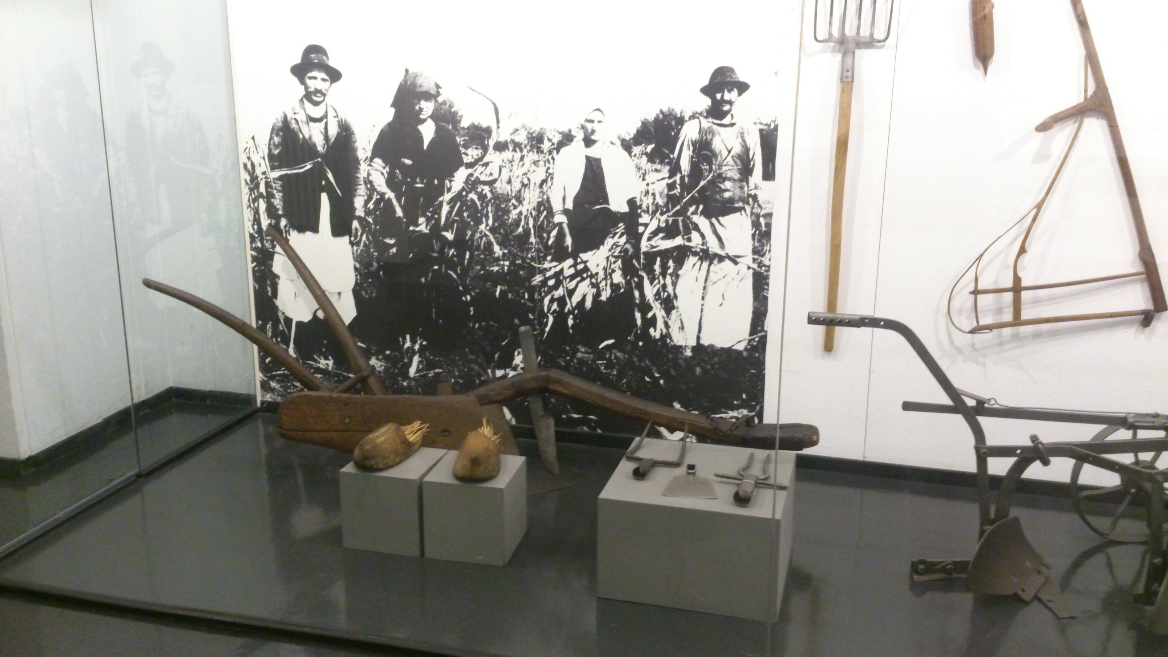 Ethnografic Museum in Belgrade, Serbia Srpski (latinica): Etnografski muzej u Beogradu